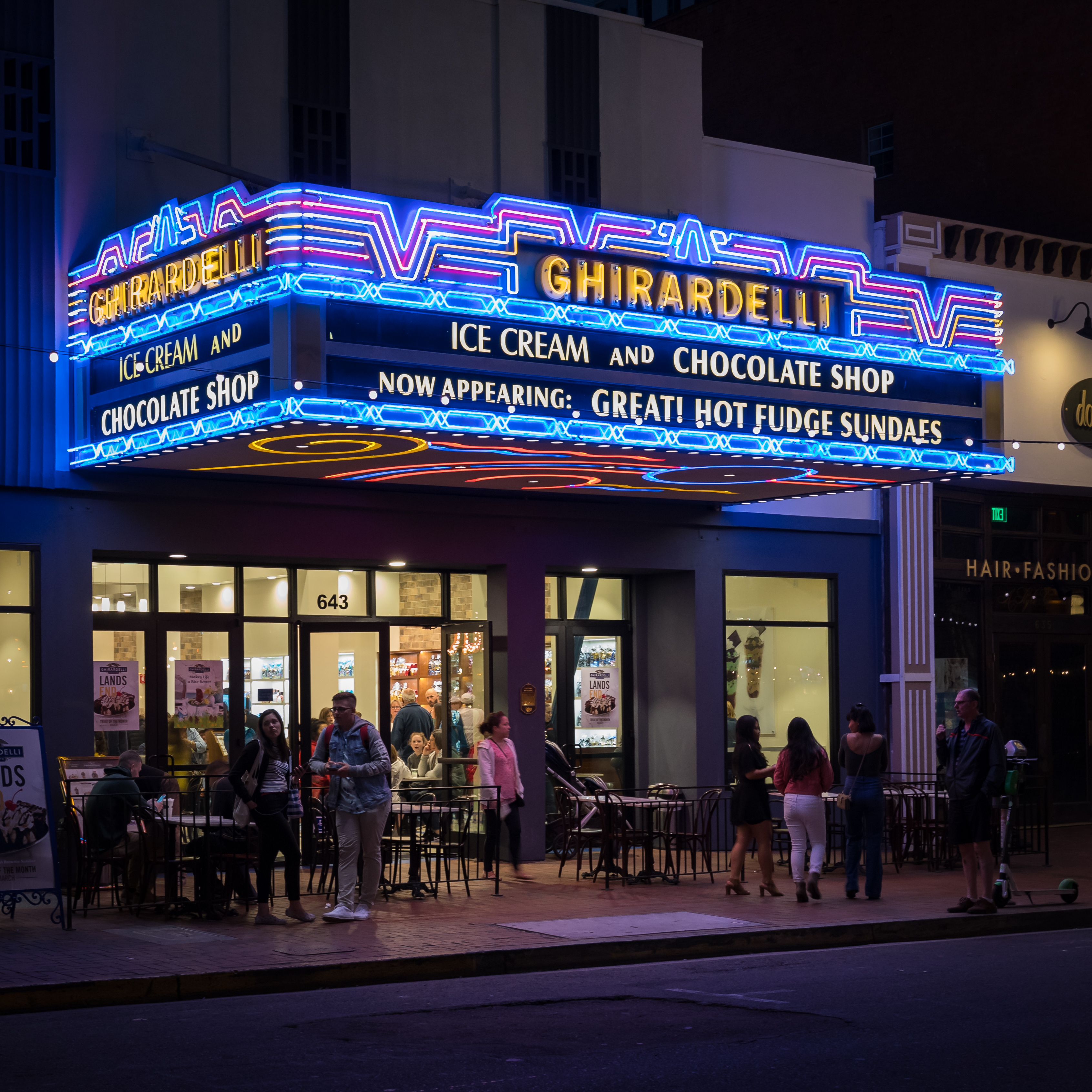 Ghirardelli icecream and chocolate shop at the Gaslamp Quarter in San Diego, California, at night